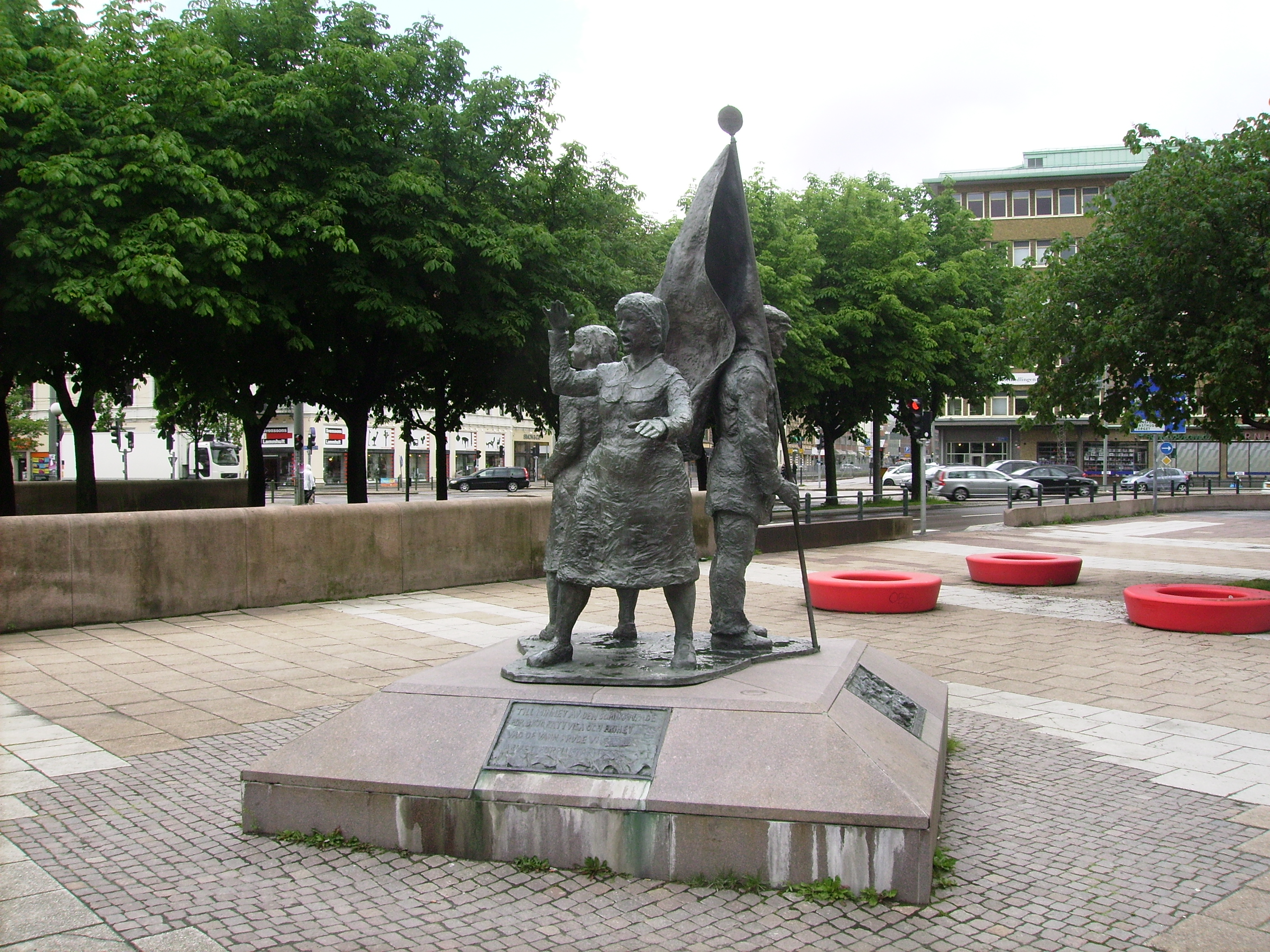 Picture of sculpture in Gothenburg, Genom arbete i arbete